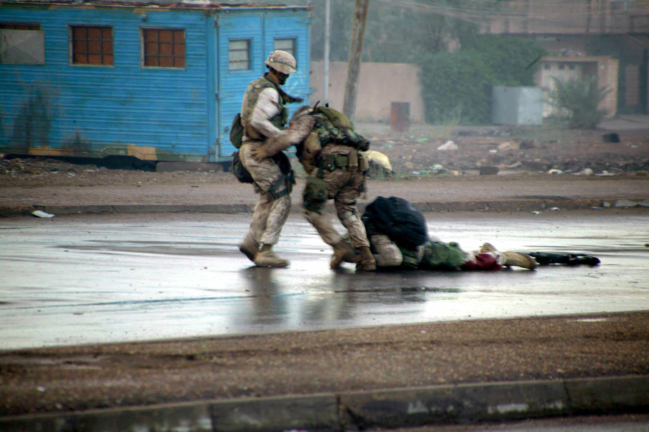 Fallujah, Iraq (Nov. 9, 2004) - Gunnery Sgt. Ryan P. Shane (center), platoon Gunnery Sergeant assigned to Company B, 1st Battalion 8th Marine Regiment (1/8), Regimental Combat Team 7, and another member of 1/8, recover a fatally wounded Marine while under fire during Operation Al Fajr. Seconds later Shane was wounded by enemy fire. Operation Al Fajr is an offensive operation to eradicate enemy forces within the city of Fallujah in support of continuing security and stabilization operations in the Al Anbar province of Iraq. U.S. Marine Corps photo by Cpl. Joel A. Chaverri (RELEASED)